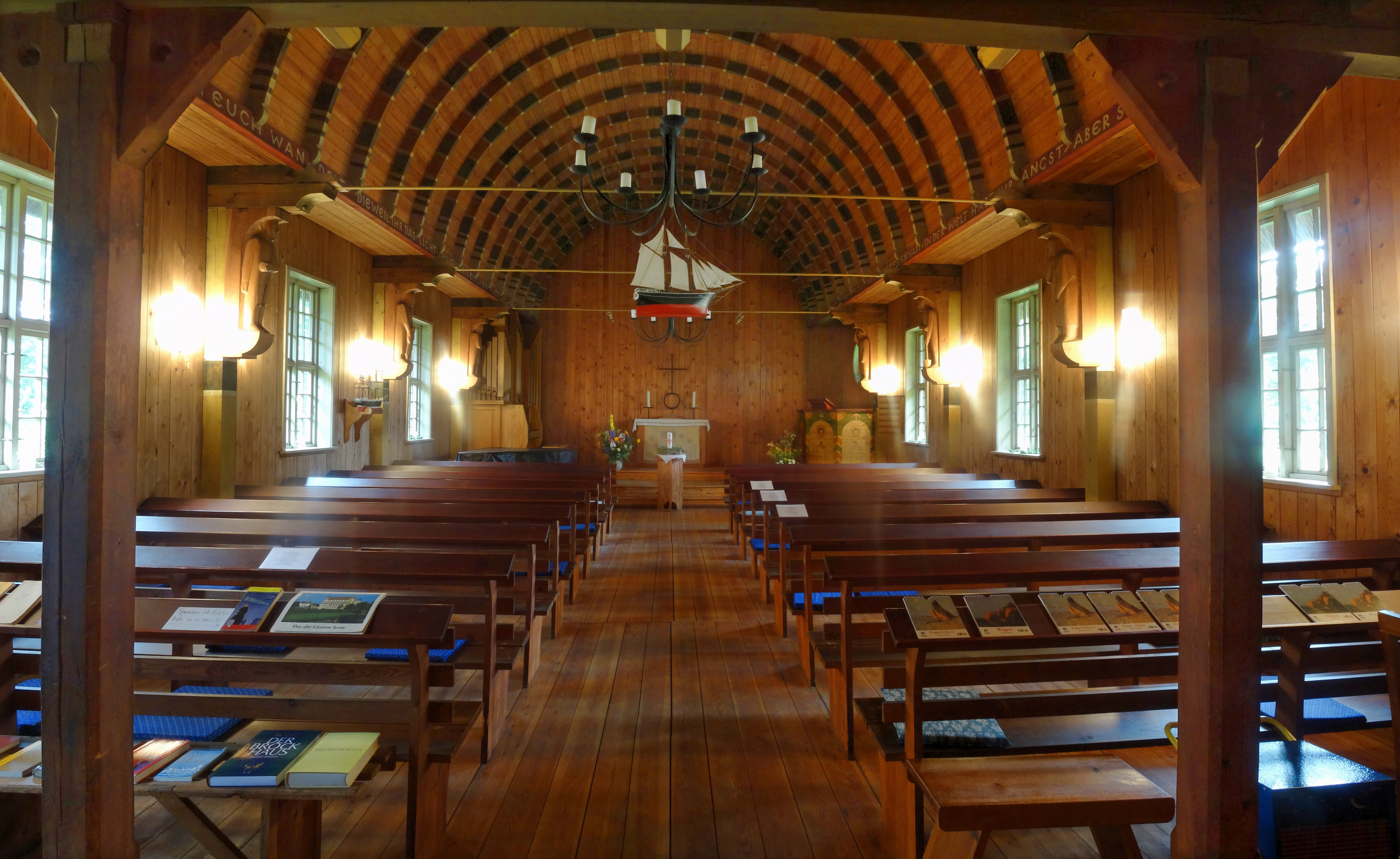 Born a. Darss, Fisherman´s Church, inside